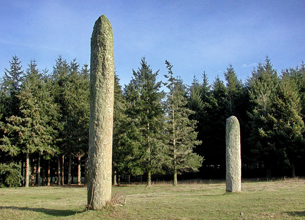 Menhirs in Lambert's farm, Collobrières, Var